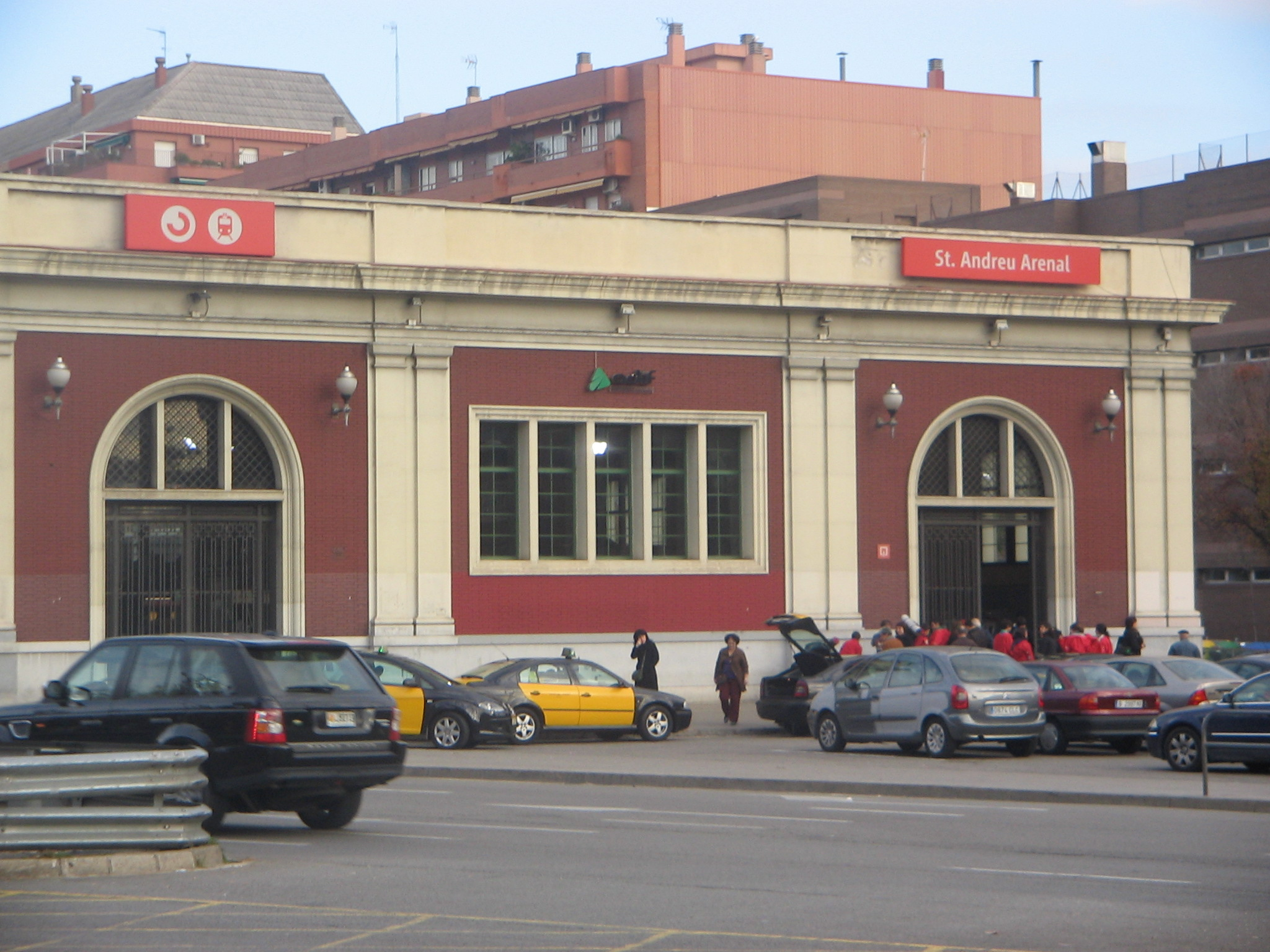 St. Andreu Arenal station. (Barcelona, Spain).